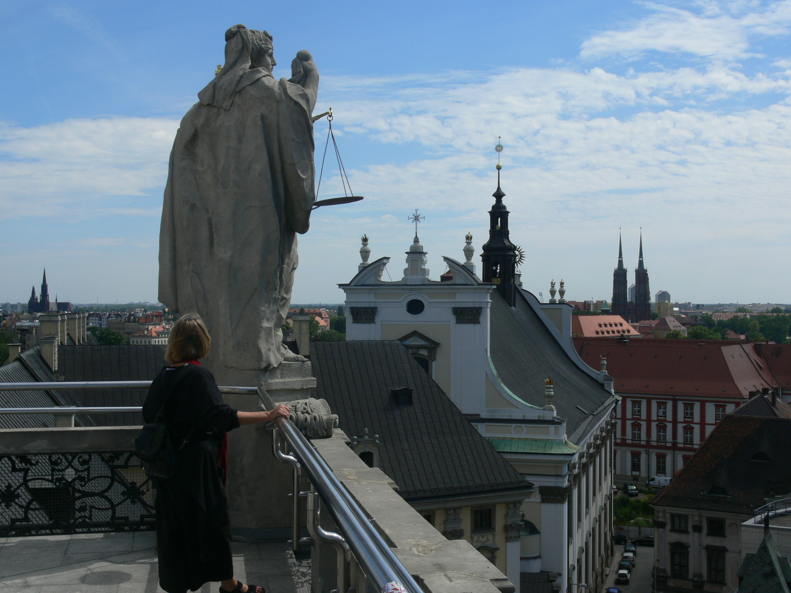 Platform of the "Mathematical Tower" (Leopoldina University of Wrocław) with Mangoldt's "Law Faculty" statue